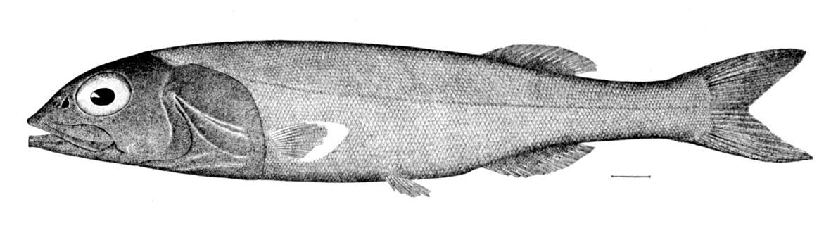 Agassiz' slickhead, Alepocephalus agassizii. The specimen #33056, U. S. N. M., collected by the steamer “Albatros” at Station 2030, in 39° 26′ 16″ N 71° 43′ W, at depth of 588 fathoms (ca. 1.07 km).